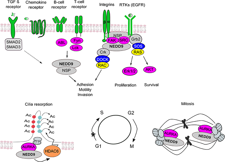 A. In cell adhesion, migration, and proliferation control, NEDD9 expression and activity are regulated by multiple upstream inputs. Important transmembrane regulators include integrins (Astier, A., et al.,J. Biol. Chem., 1997) and RTKs, the CXC (SDF-1alpha) chemokine receptor (Regelmann, A.G., et al., Immunity, 2006 ), and the T (Malherbe, L.P. and D. Wang,Sci Signal, 2012) and B (Browne, C.D., et al.,Proc Natl Acad Sci U S A, 2010) cell receptors. Cytoplasmic mediators of activation include FAK, Src family kinases and Abl, additional non-catalytic proteins such as NSPs. Through a chain of protein interactions, NEDD9 can impact activity of Ras and Rac, and their downstream effectors that affect cell movement and growth. Transforming growth factor beta (TGFβ), an inducer of epithelial-mesenchymal transition, has been reported to both stimulate NEDD9 transcription and regulate its degradation. B. A second group of NEDD9 activities involve its interaction with Aurora-A. NEDD9 binds directly to the Aurora-A mitotic kinase at the centrosome, promoting its activity, and mediating G2-M transition (Pugacheva, E.N. and E.A. Golemis, Nat Cell Biol, 2005). NEDD9 also regulates Aurora-A activation at the basal body of cilia, inducing cilia disassembly during early G1 via activation of the tubulin deacetylase HDAC6 (Pugacheva, Cell, 2007).